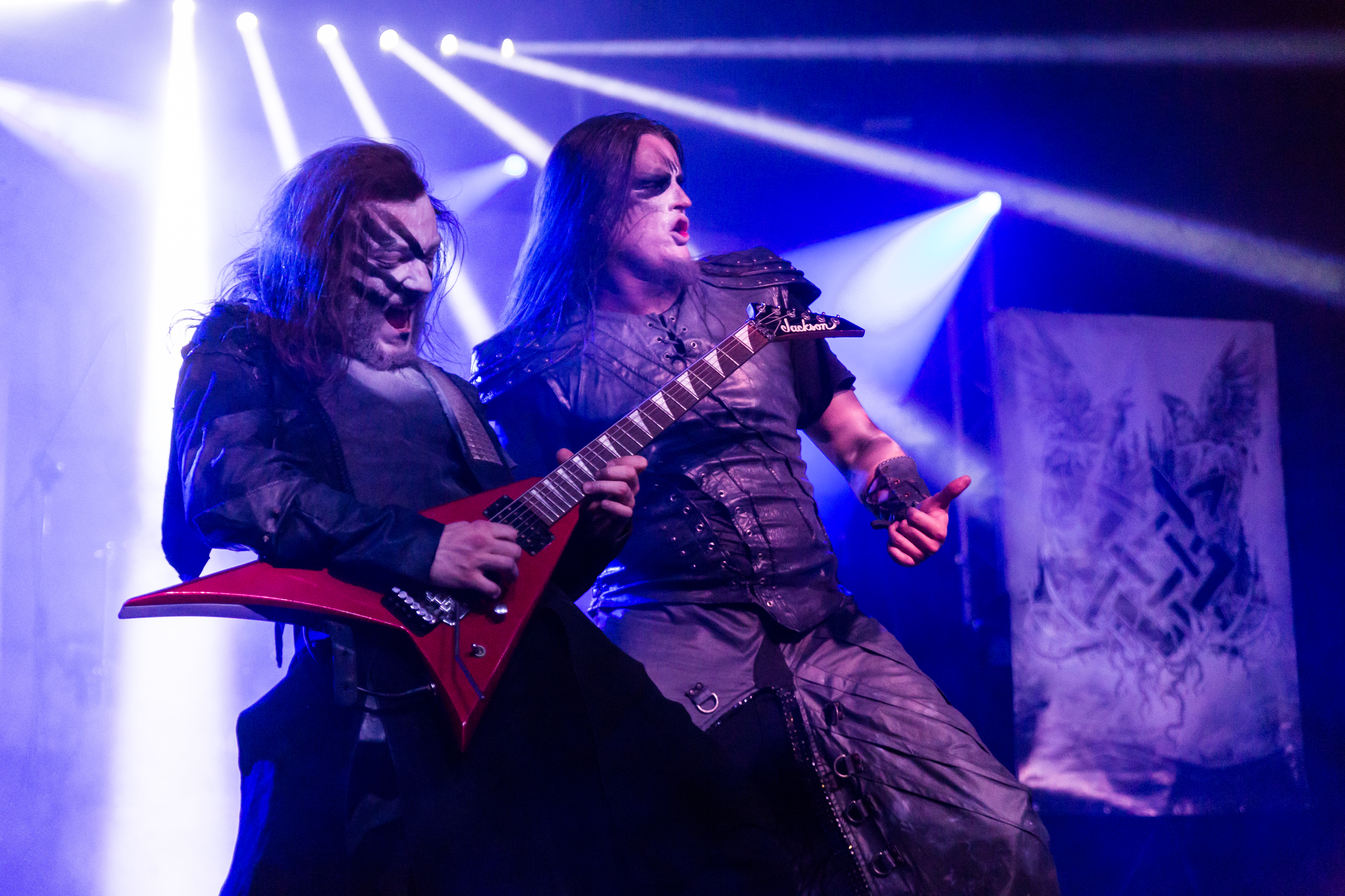 The Russian symphonic black metal band Welicoruss at the Wave-Gotik-Treffen 2017 in Leipzig/Germany (Venue Felsenkeller).